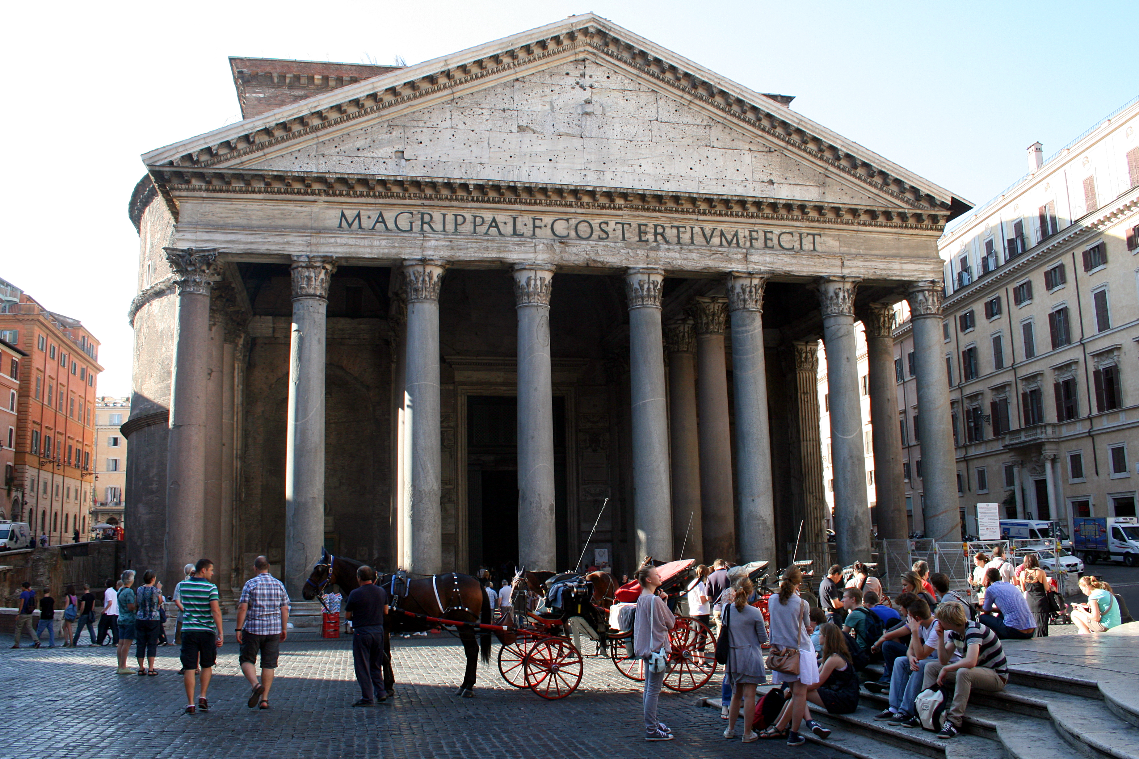 The Pantheon (27 BC.) - Piazza della Rotonda (Rome).